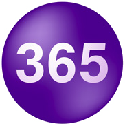 365 (media corporation) logo